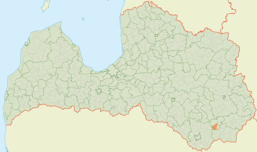 Šķeltova parish location map (Latvia)